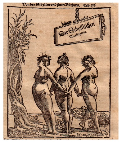 Münster's sights and views-- some examples from different editions (many with modern hand-coloring)